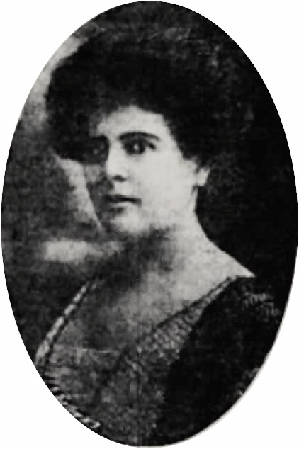 Depicted person: Alma Webster Hall Powell – American operatic soprano, suffragist, philanthropist, writer, film scenarist, inventor, and member of the Socialist Party.